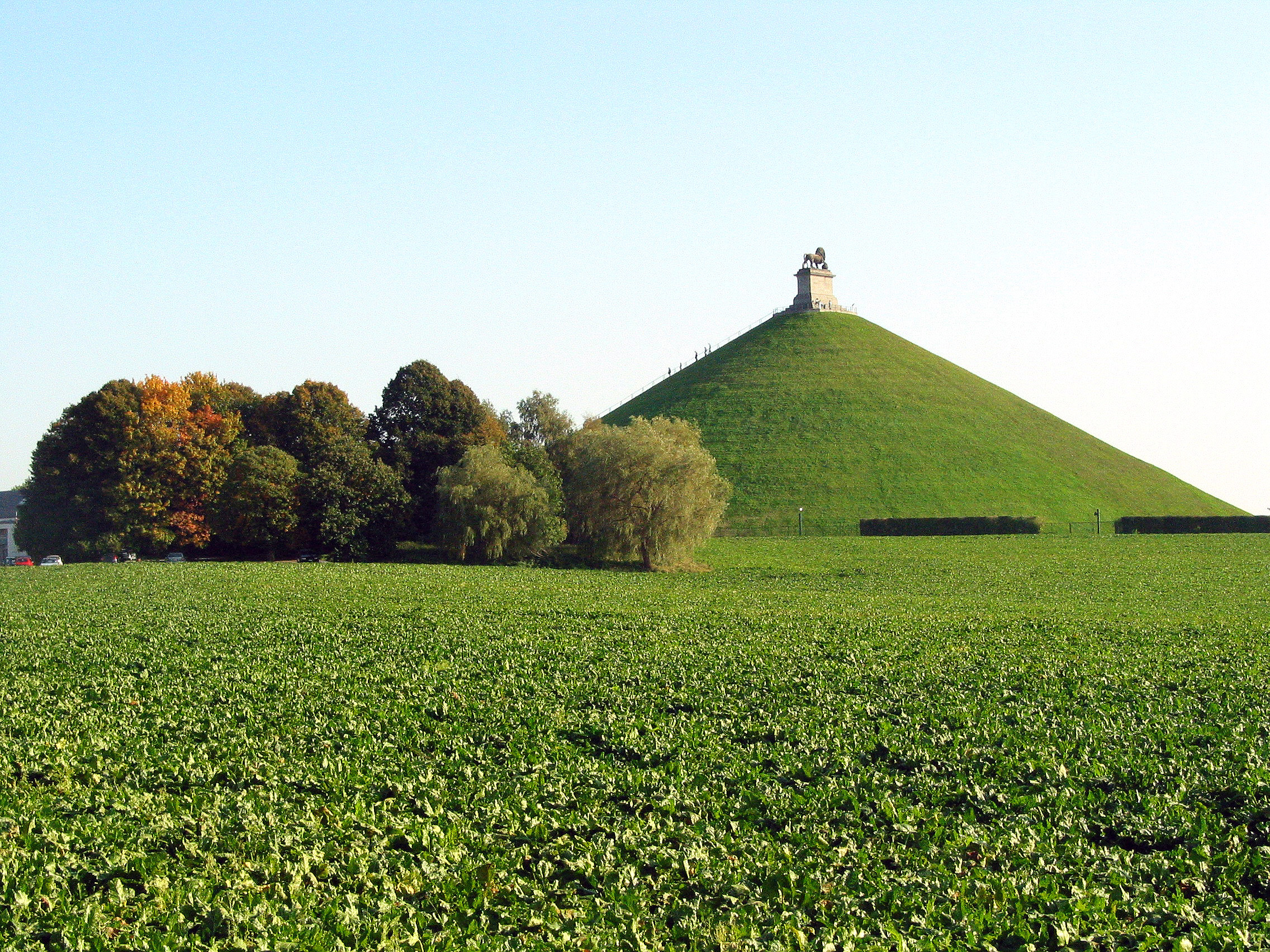 Braine-l'Alleud Belgium, Lions' Hillock. - Commemorative monument of the Battle of Waterloo standing on the spot where the Prince of Orange was wounded during the fight.